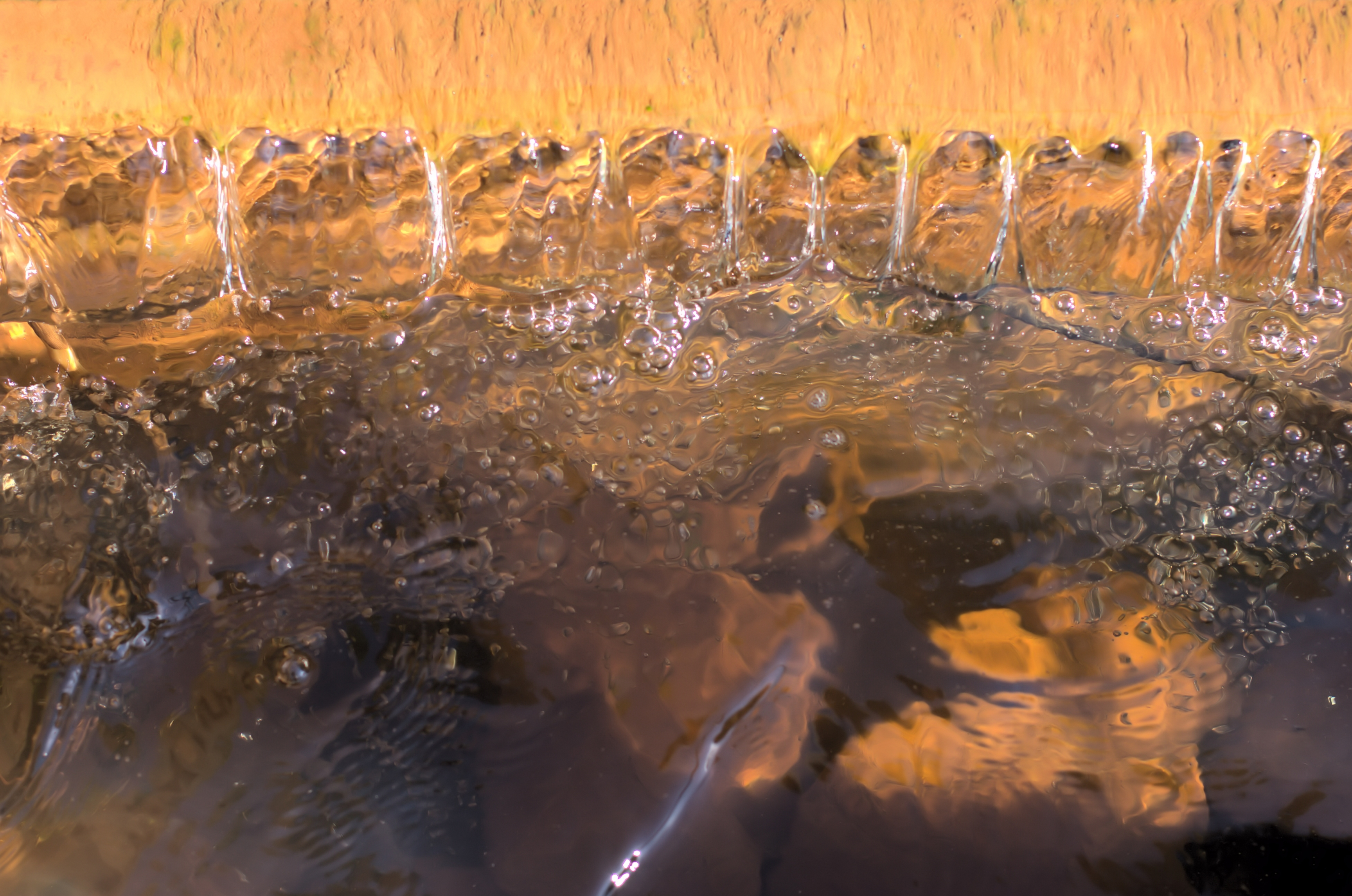 Ochre-colored waterfall a top view - Purification of ocher occurs by oxidation of the water. Here's oxygenation of spring water at Arnakkekilden through a waterfall.